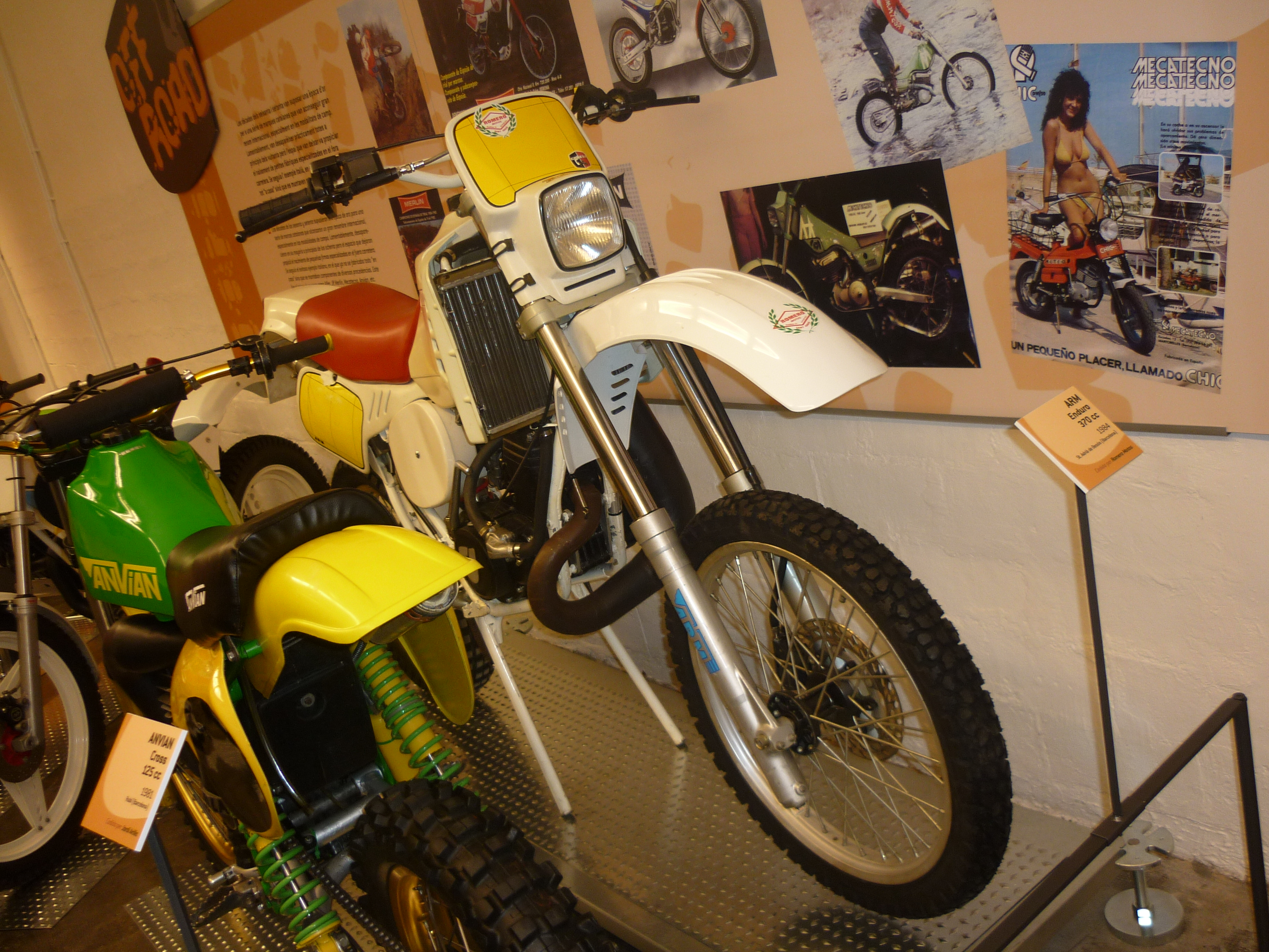 White: ARM Enduro 370cc (1984).Museu de la Moto de Barcelona (Catalonia).